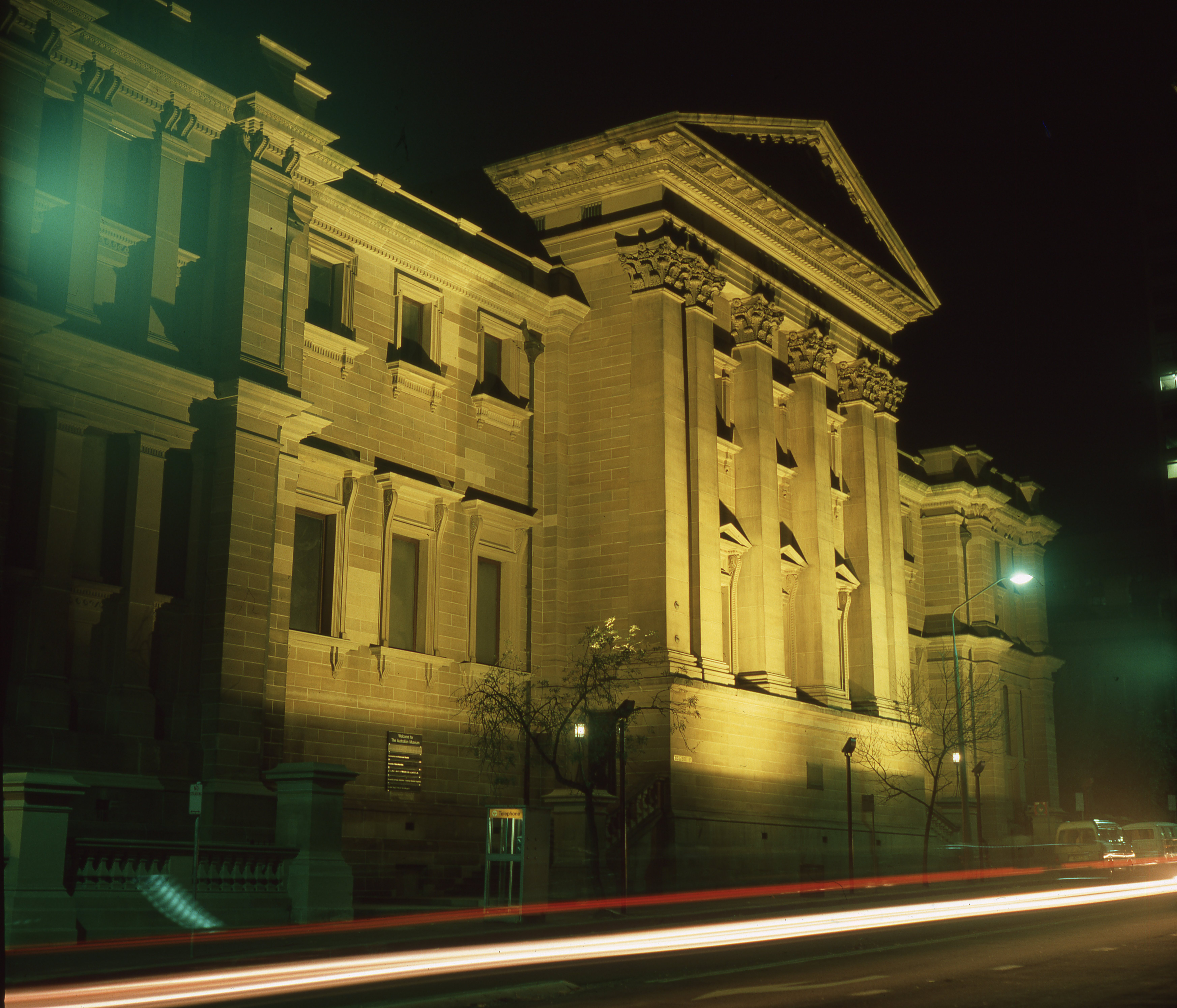 Australian Museum, College Street, Sydney (6x6 Fujichrome slide scanned at 3200)